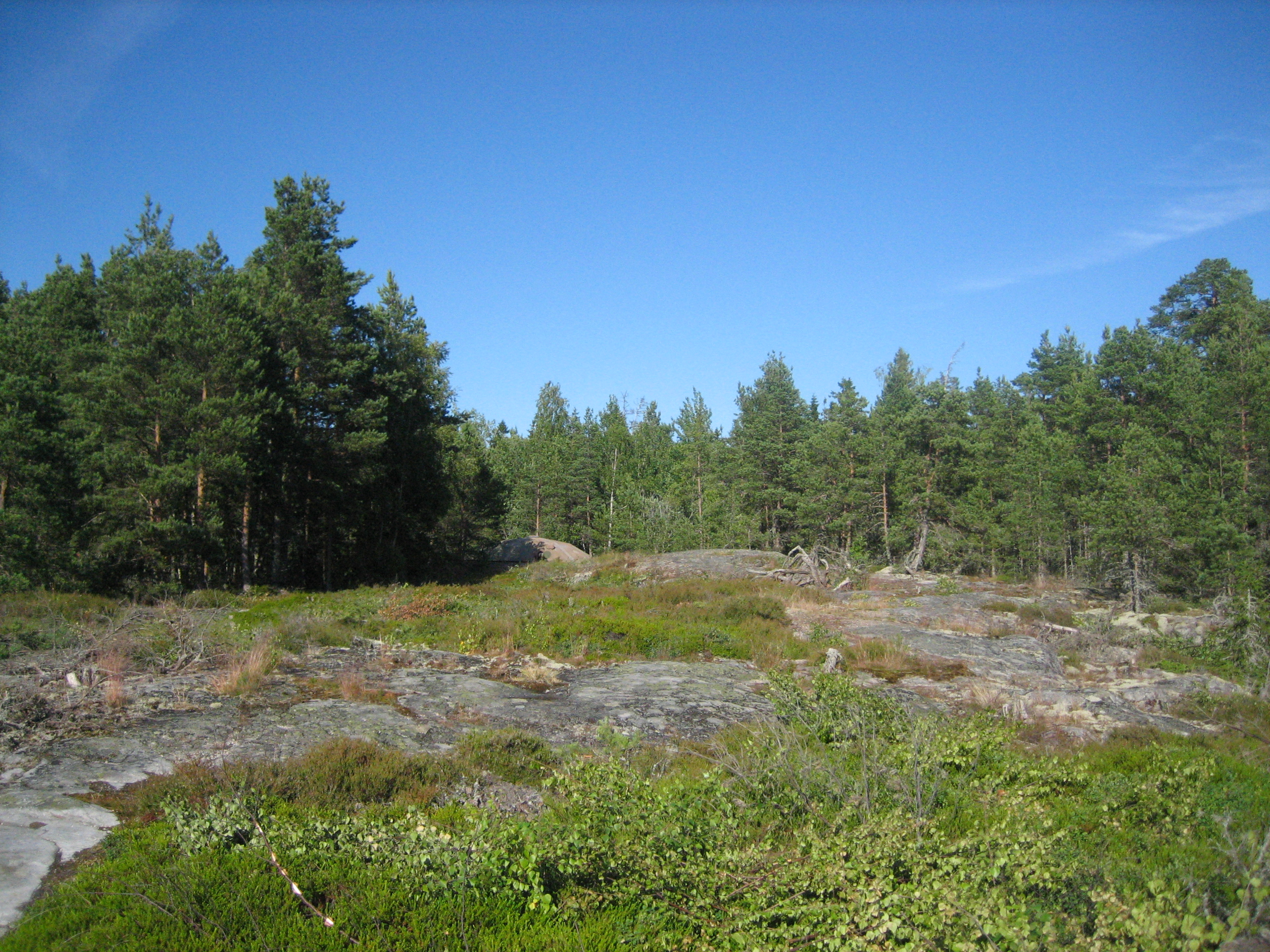 Overview of a 152 mm fixed coastal artillery cannon 152/50 T (modernized Canet cannon) at the former fortress of Kuuskajaskari, off the port of Rauma, Finland.